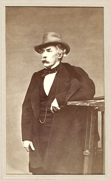 Hermann David Salomon Corrodi (1844–1905) Alternative names Hermann CorrodiDescriptionItalian painterDate of birth/death 23 July 1844 30 January 1905 Location of birth/death Frascati, Provinz Rom, Italien Rom, ItalienAuthority control : Q1341635 VIAF: 10603614 ISNI: 0000 0000 6674 9592 ULAN: 500068428 LCCN: no2017030273 GND: 116685336 WorldCat creator QS:P170,Q1341635